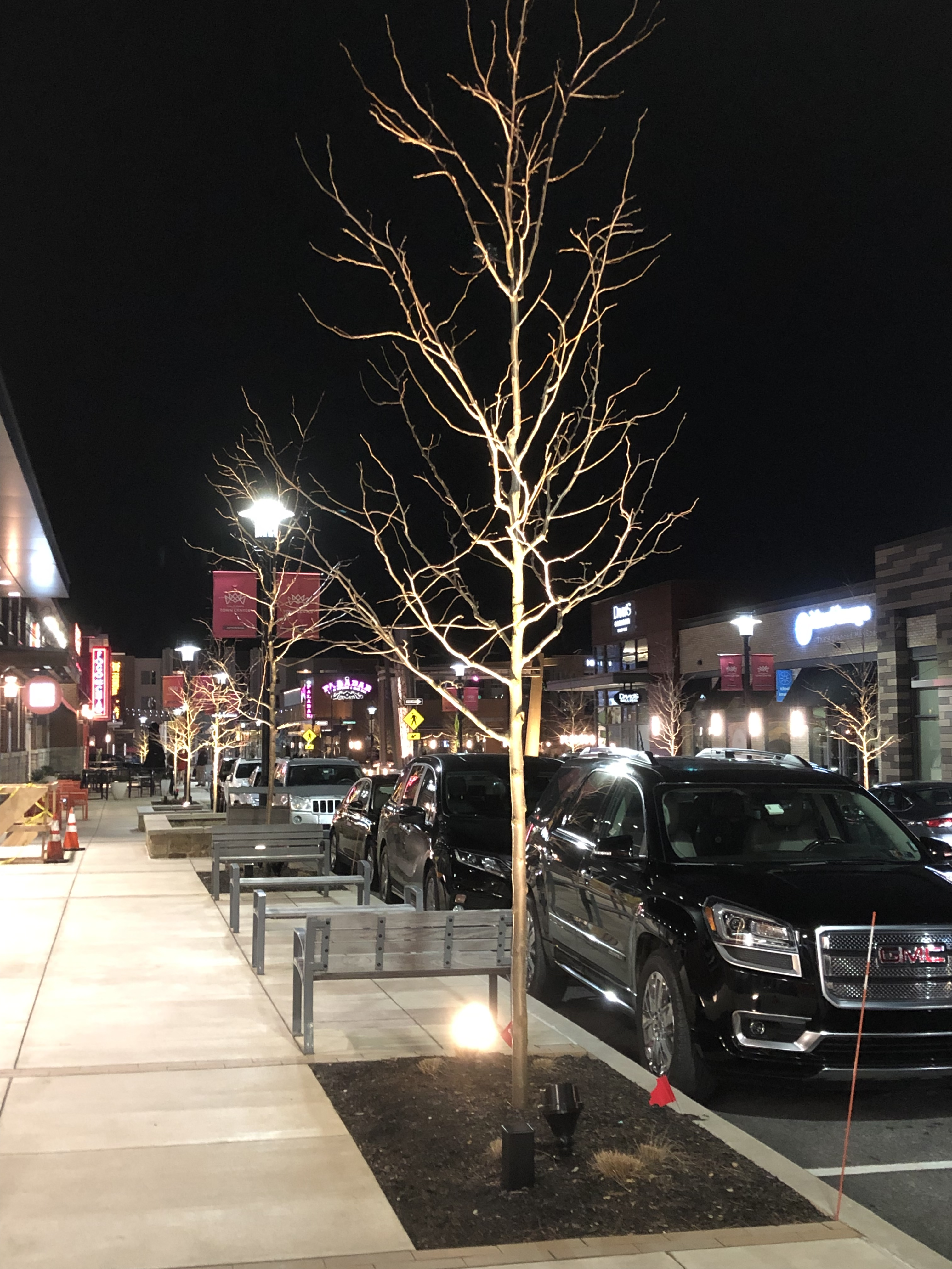 Valley Forge Village